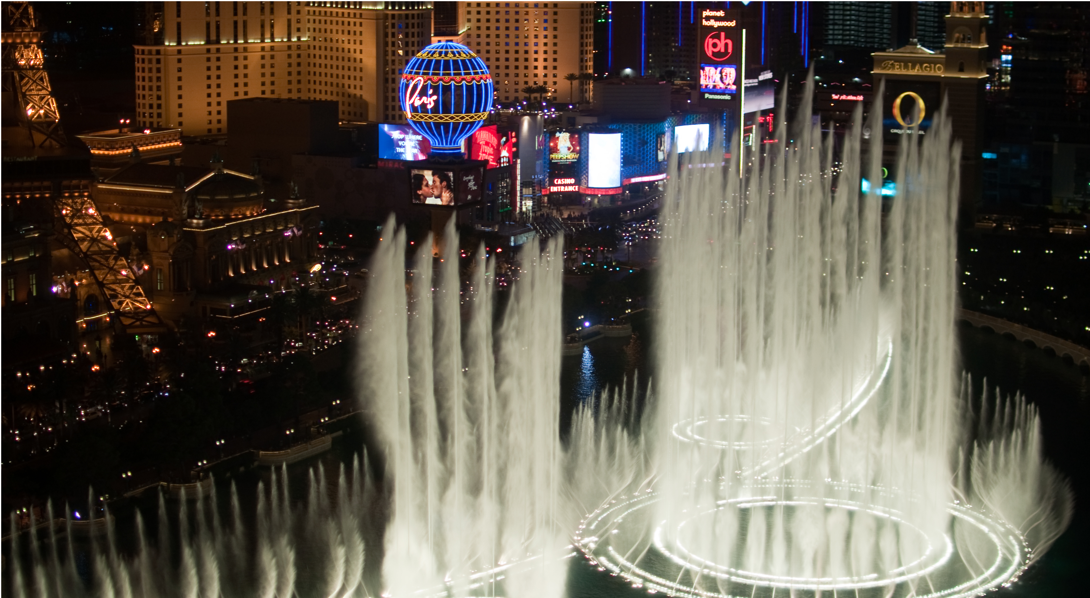 The Bellagio Fountains, Las Vegas.